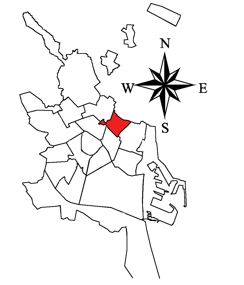 Situation of Benimaclet in Valencia